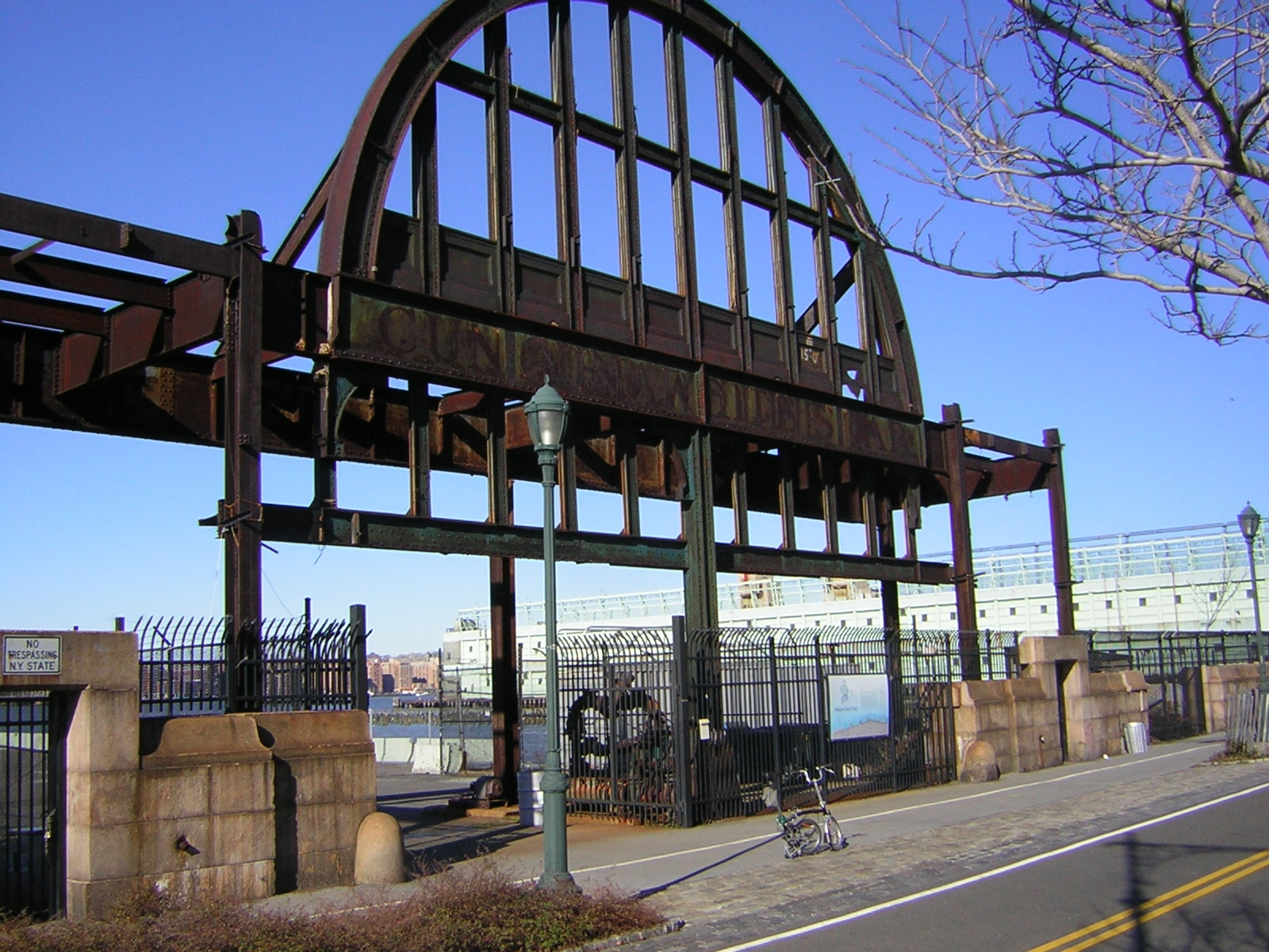 Archway of former Cunard Line and White Star Line, at North River Pier 54 in Manhattan, showing the faint lettering of the former tenants. Looking northwest on a sunny midday.